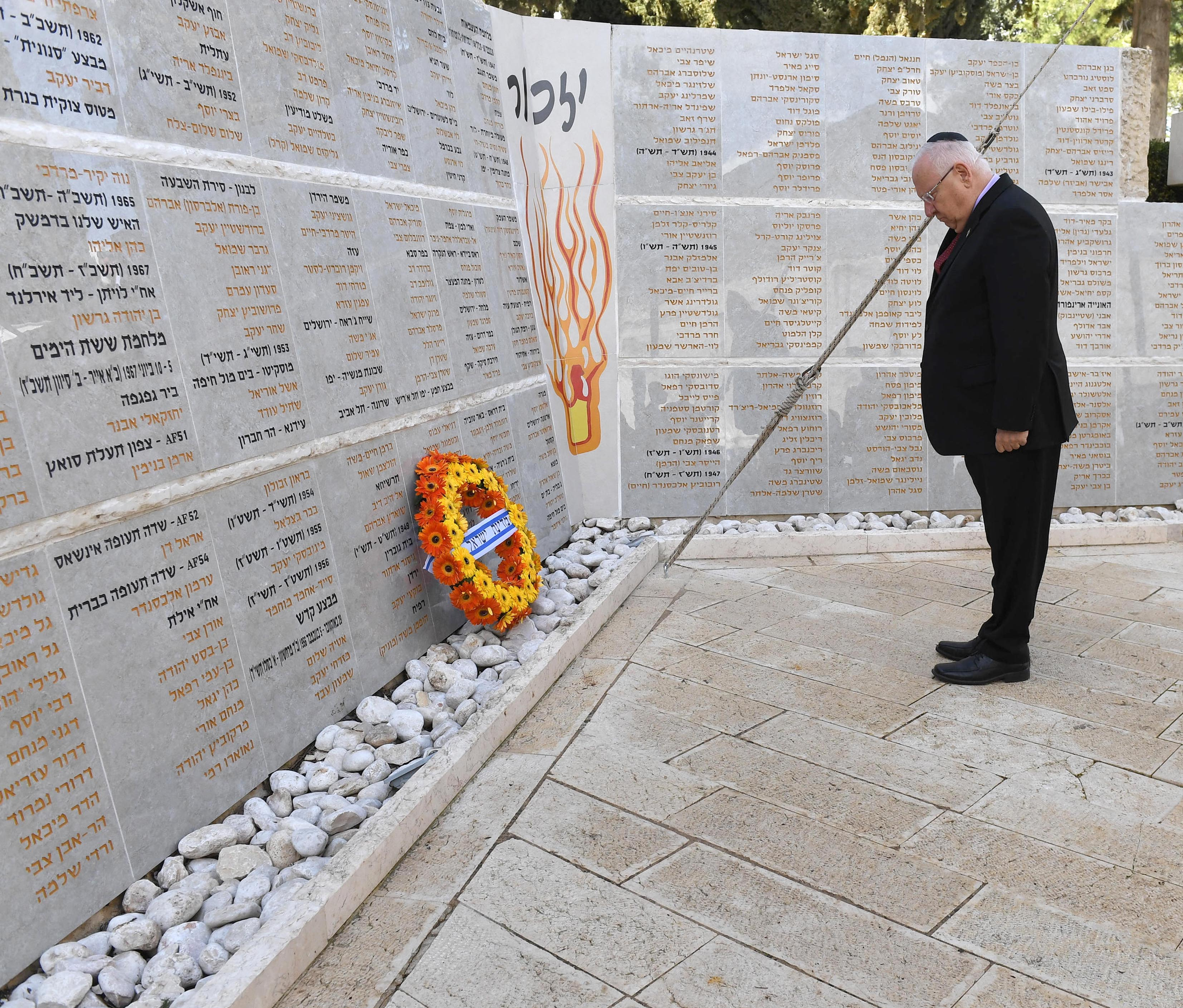 President of Israel, Reuven Rivlin, at the Israeli Missing in action memorial day. Thursday, February 19th, 2018. Photo Credit: Mark Neyman / GPO.